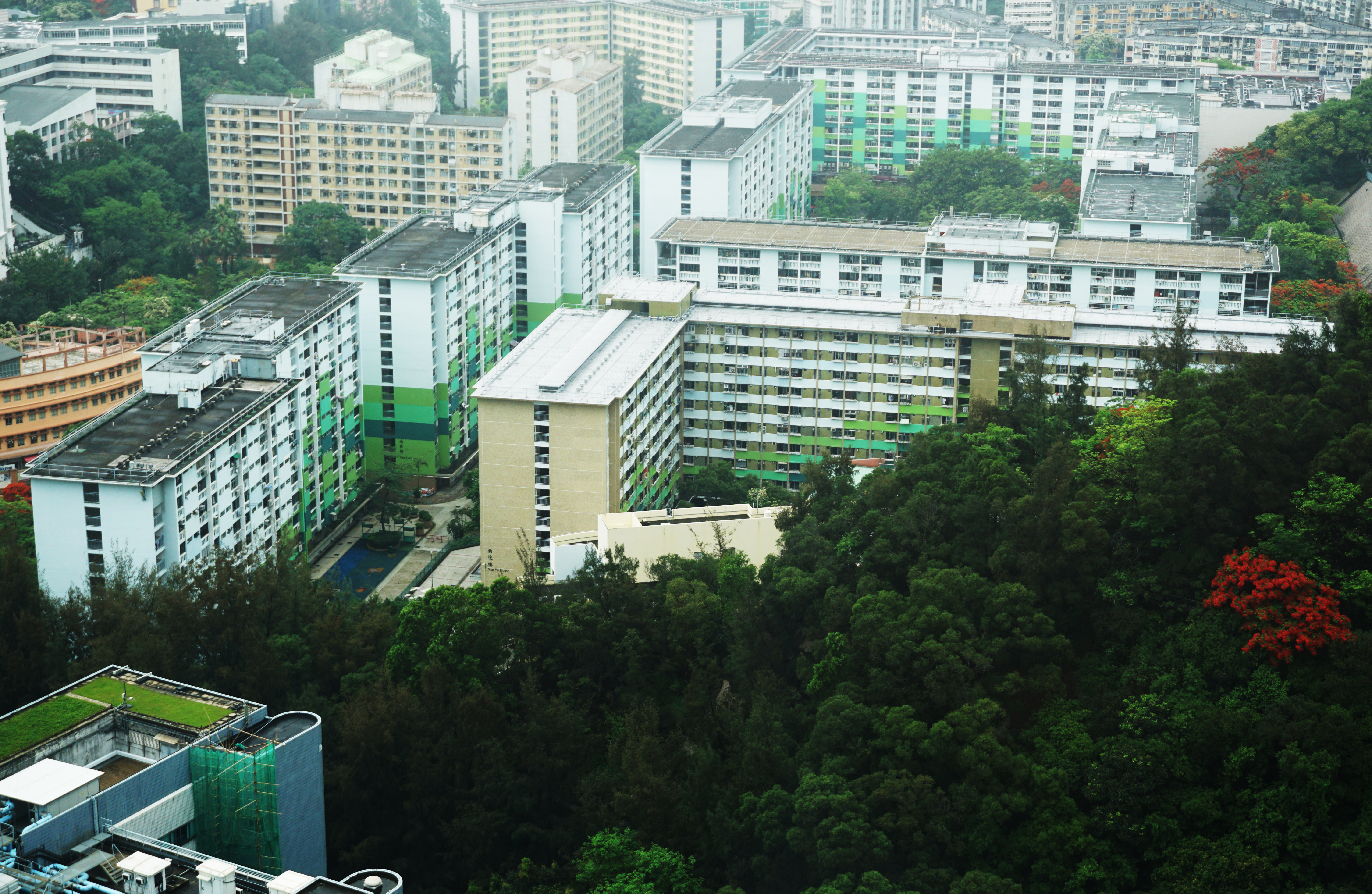 Nam Shan Estate in Shek Kip Mei, Hong Kong.